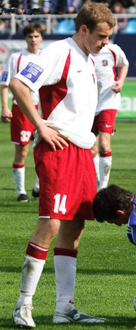 Yaroslav Zakharevych, Ukrainian footballer, during the game for Arsenal Kyiv